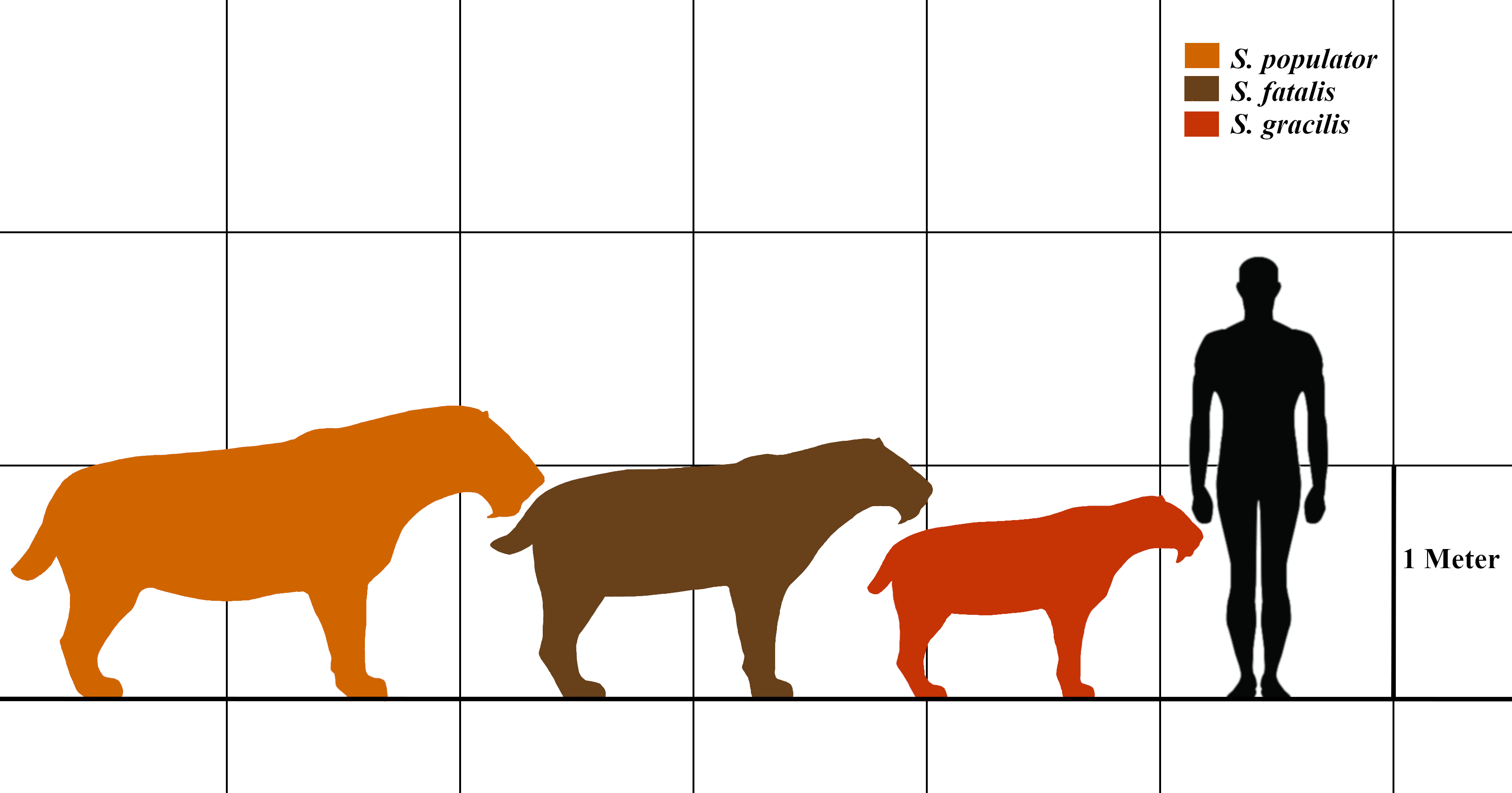 Size comparison of Smilodon species with a 1.8 m tall human. Per Harris, John M.; Christiansen, Per (2005-12-01). «Body size of Smilodon (Mammalia: Felidae)». Journal of Morphology (en inglés) 266 (3): 369-384. ISSN 1097-4687. Berta, Annalisa (1995). «Fossil Carnivores from the Leisey Shell Pits, Hillsborough County, Florida». Bull. Florida Mus. Nat. Hist. 37 (Pt. II (14)): 463-499.